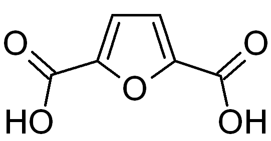 en:2,5-Furandicarboxylic acid